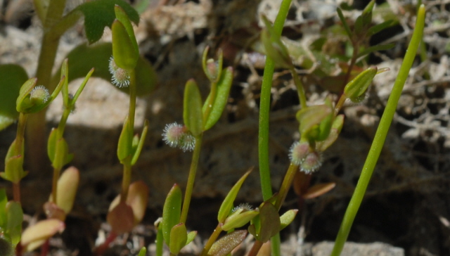 Galium bifolium at Schenk Camp area south of Mormon Emigrant Trail (El Dorado County, California, US)